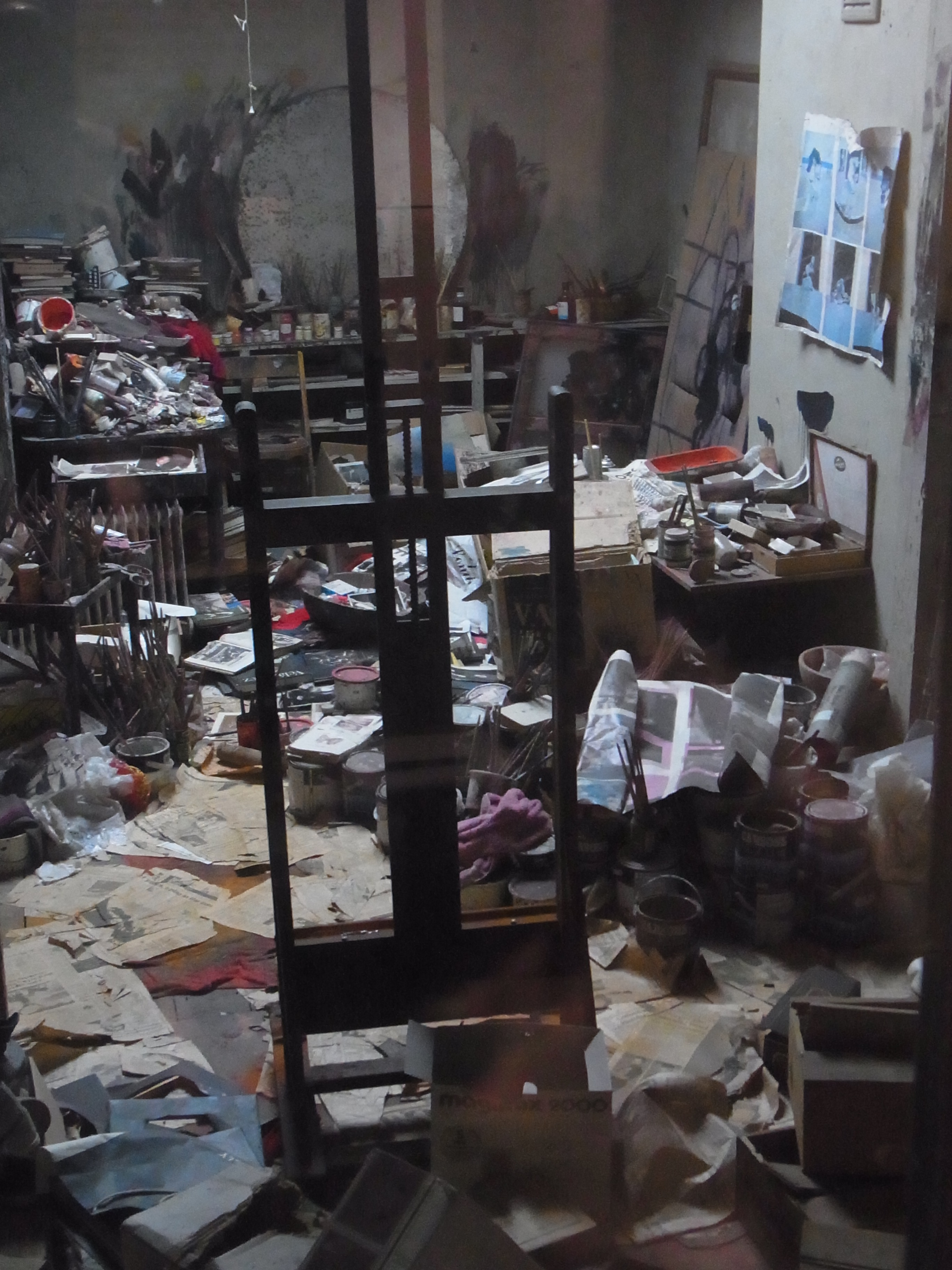 Francis Bacon's studio at the City Gallery The Hugh Lane, Dublin, Ireland.